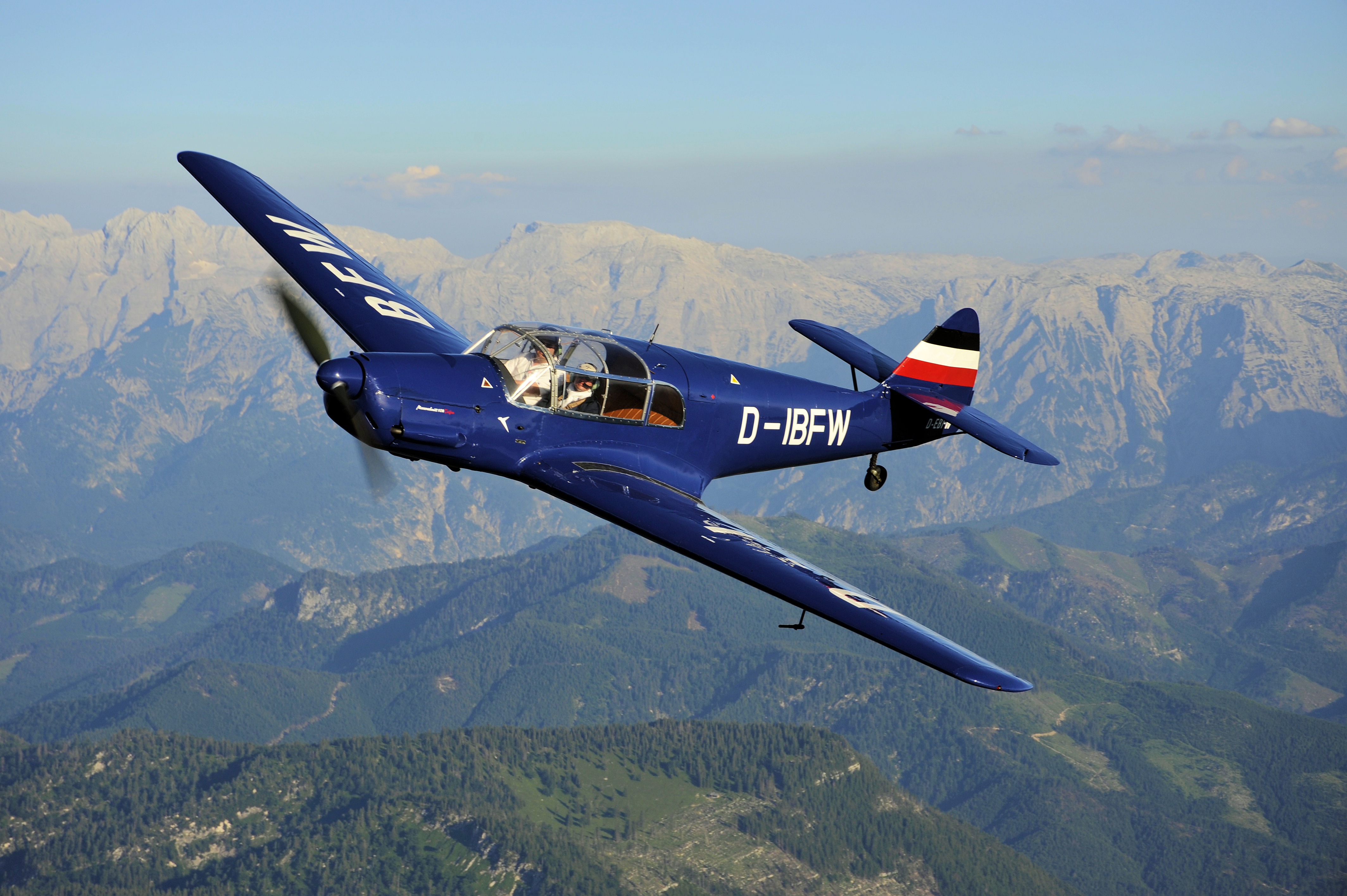 A Messerschmitt Bf 108 (aircraft registration: D-IBFW) in flight